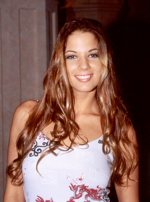 Pornographic actress Temptress